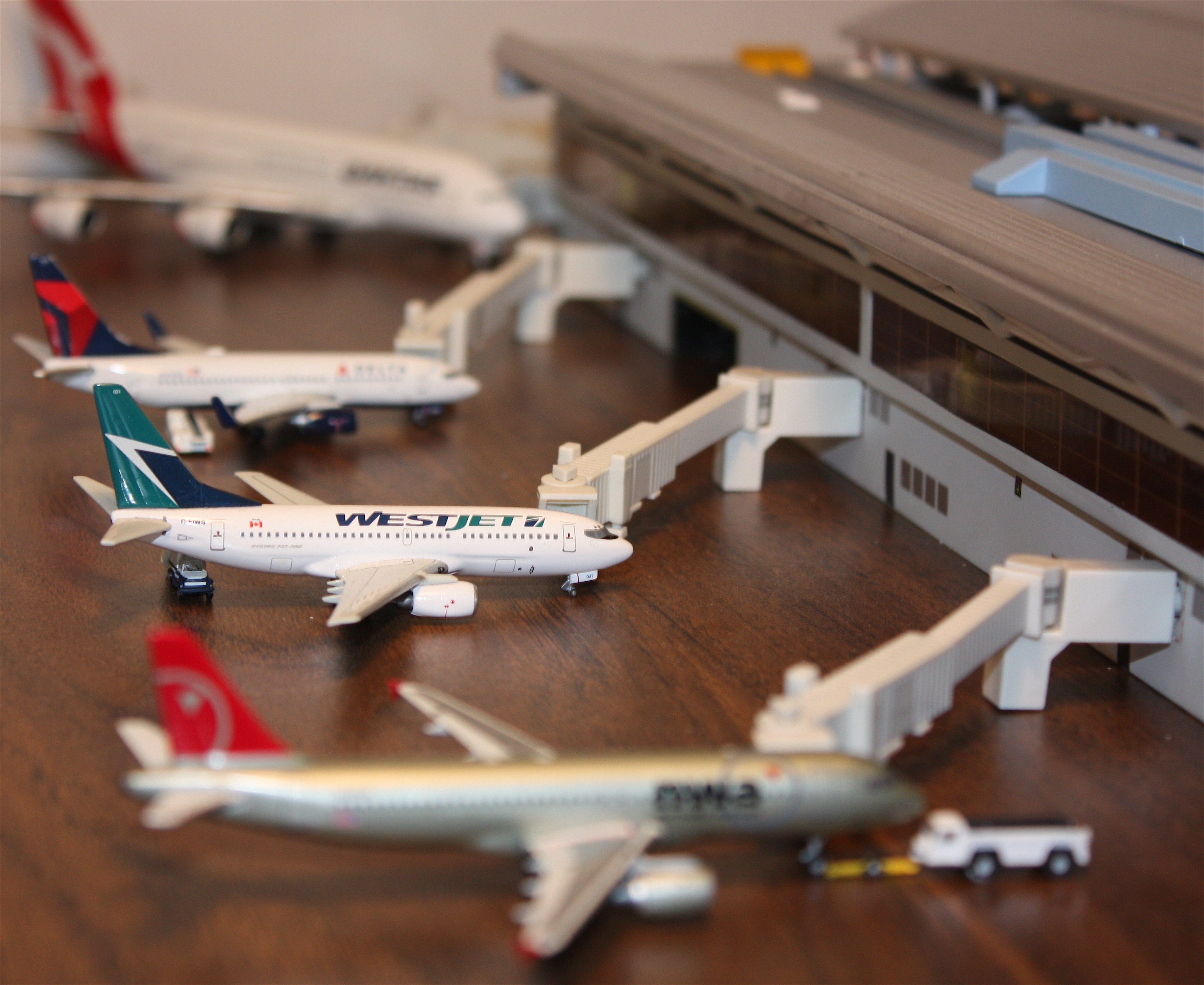 GeminiJets 1:400 scale airport. Various GeminiJets models (excluding Westjet 737) shown.